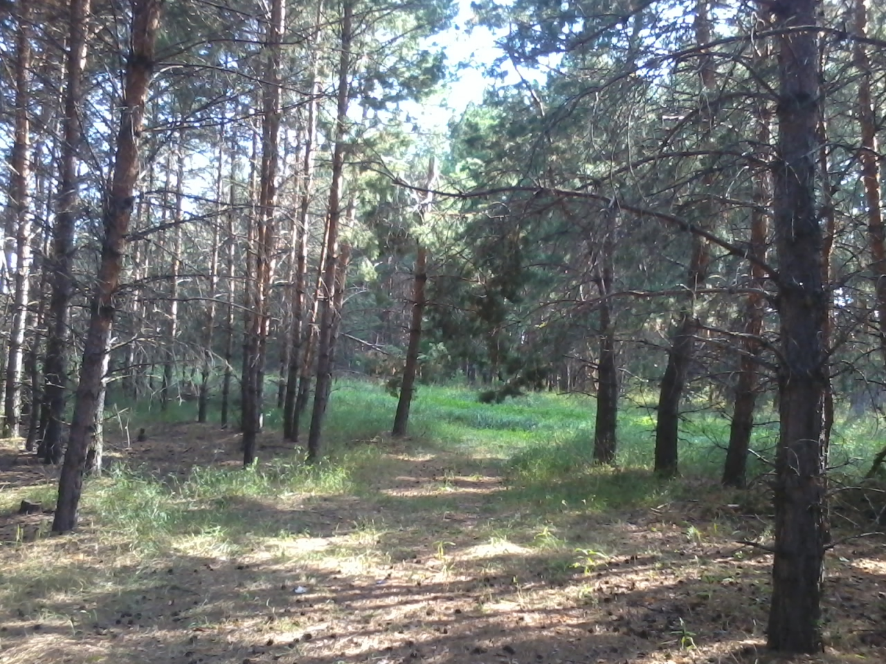 Шимолинский бор